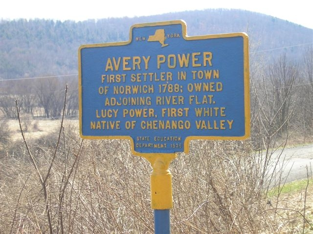 Historic marker of Avery Post, Norwich, NY